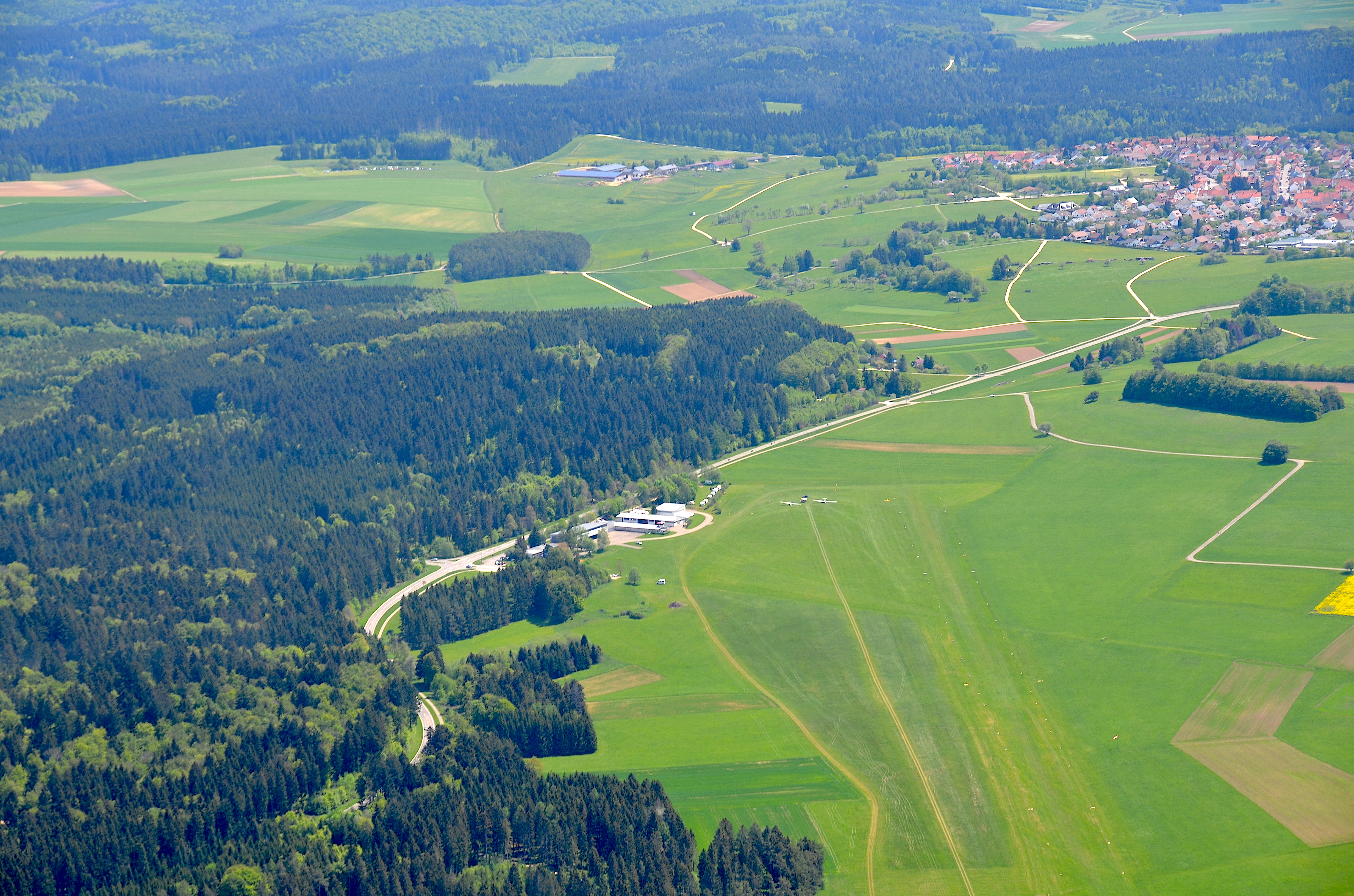 Bitz with Airport Albstadt-Degerfeld in front